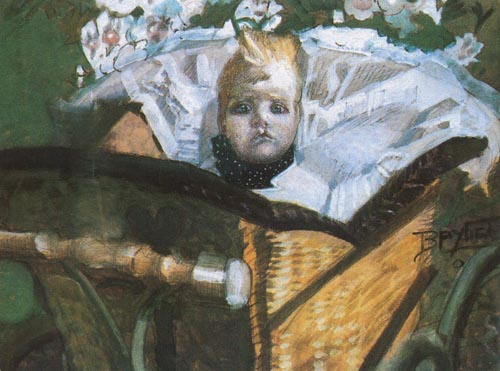 Demon Seated in a Garden